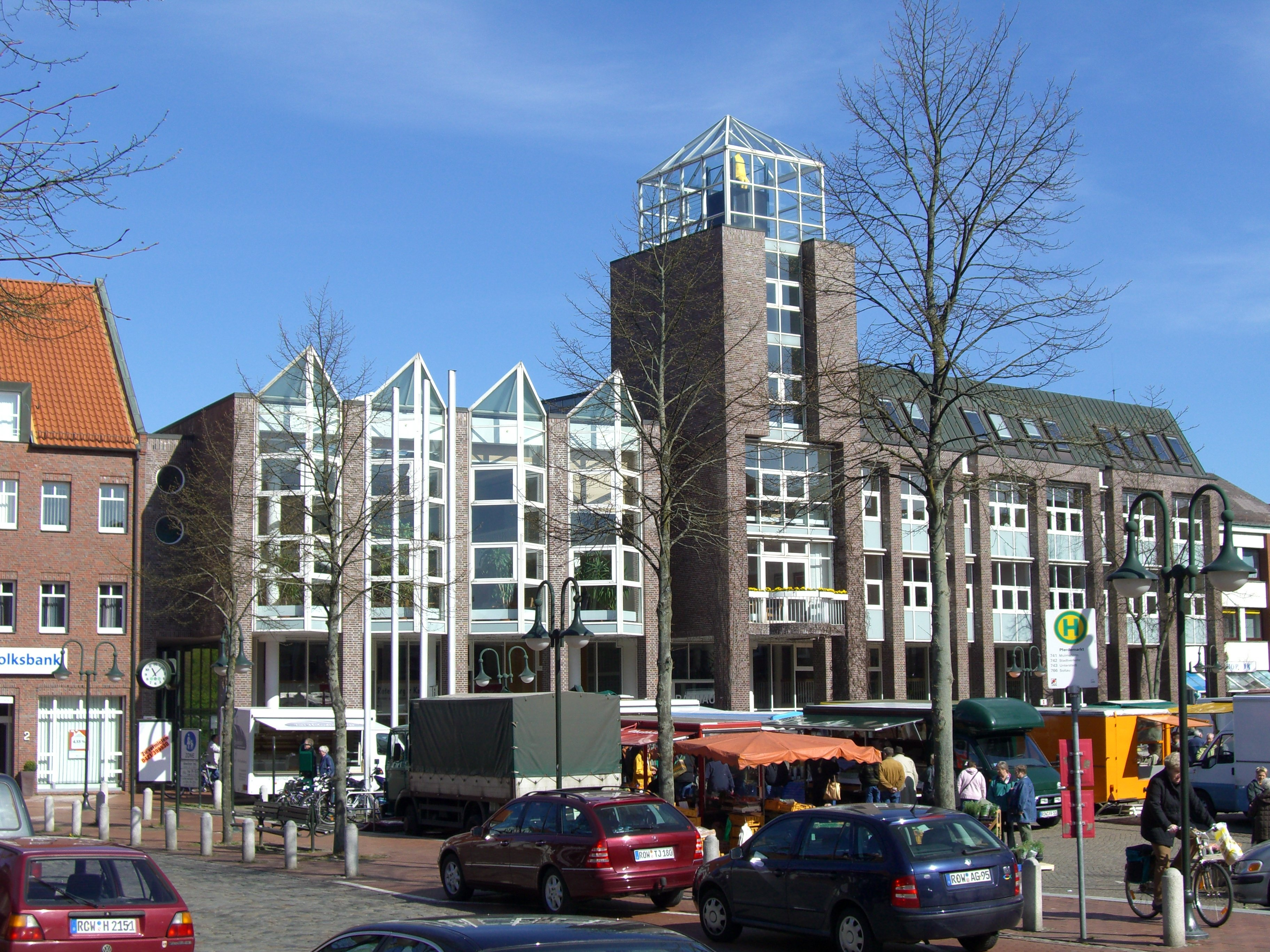 town of Rotenburg, Germany: new city hall at Pferdemarkt (horse market)